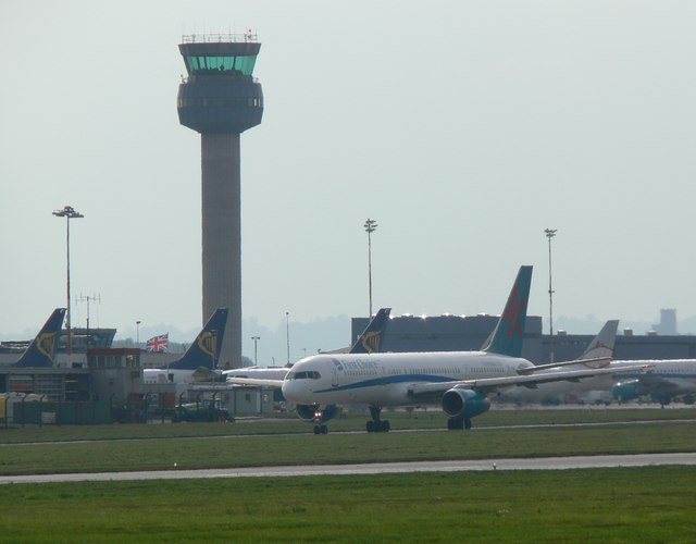 East Midlands Airport A First Choice Airways Boeing 757 is taxiing along the main runway, in front of the control tower.